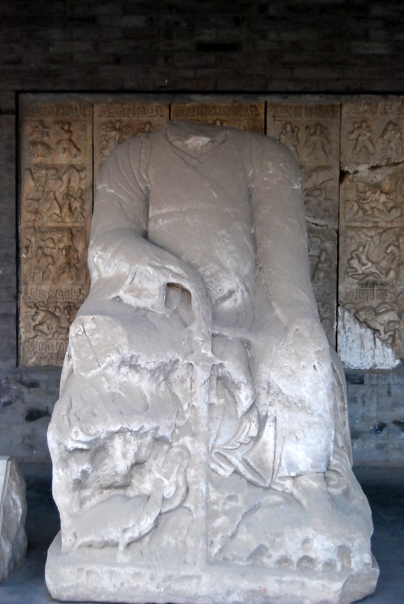 A stone figure of Zhen Wu, which has been excavated in Xicheng District of Beijing. Note the turtle+snake, his assistants, at his right footCollection Beijing Rock Carving Art Museum, ChinaSource/Photographer self photo